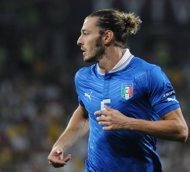 Federico Balzaretti at Euro 2012 match against England